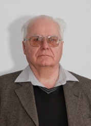 László Honti